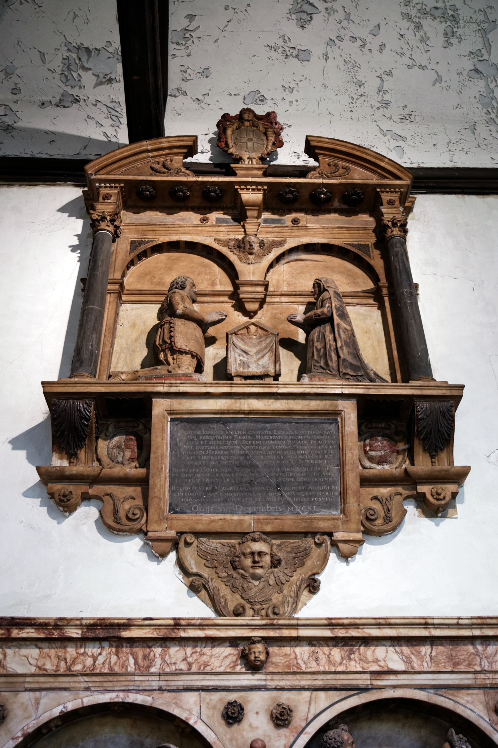 Wall marble memorial monument to Sir John Melton (d.1640), merchant, writer and politician, in the south aisle of All Hallows' Church, Tottenham, Haringey, England.The Environs of London: Volume 3, County of Middlesex (published 1795), pp. 517-557, describes Sir John Melton as the "...keeper of the great seal for the north of England, who died in 1640. He was thrice married, first to Elizabeth, relict of Sir Ferdinando Heyborne, by whom he had four children (of which Francis and Elizabeth survived him); his second wife was Catherine, daughter of Alan Currance, Esq. by whom he had three sons and one daughter, all surviving at his death; his last wife and relict was Margaret, widow of Samuel Aldersey, Esq."Camera: Canon EOS 6D with Canon EF 24-105mm F4L IS USM lens.Software: large RAW file lens-corrected optimized and downsized with DxO OpticsPro 10 Elite, Viewpoint 2, and Adobe Photoshop CS2.